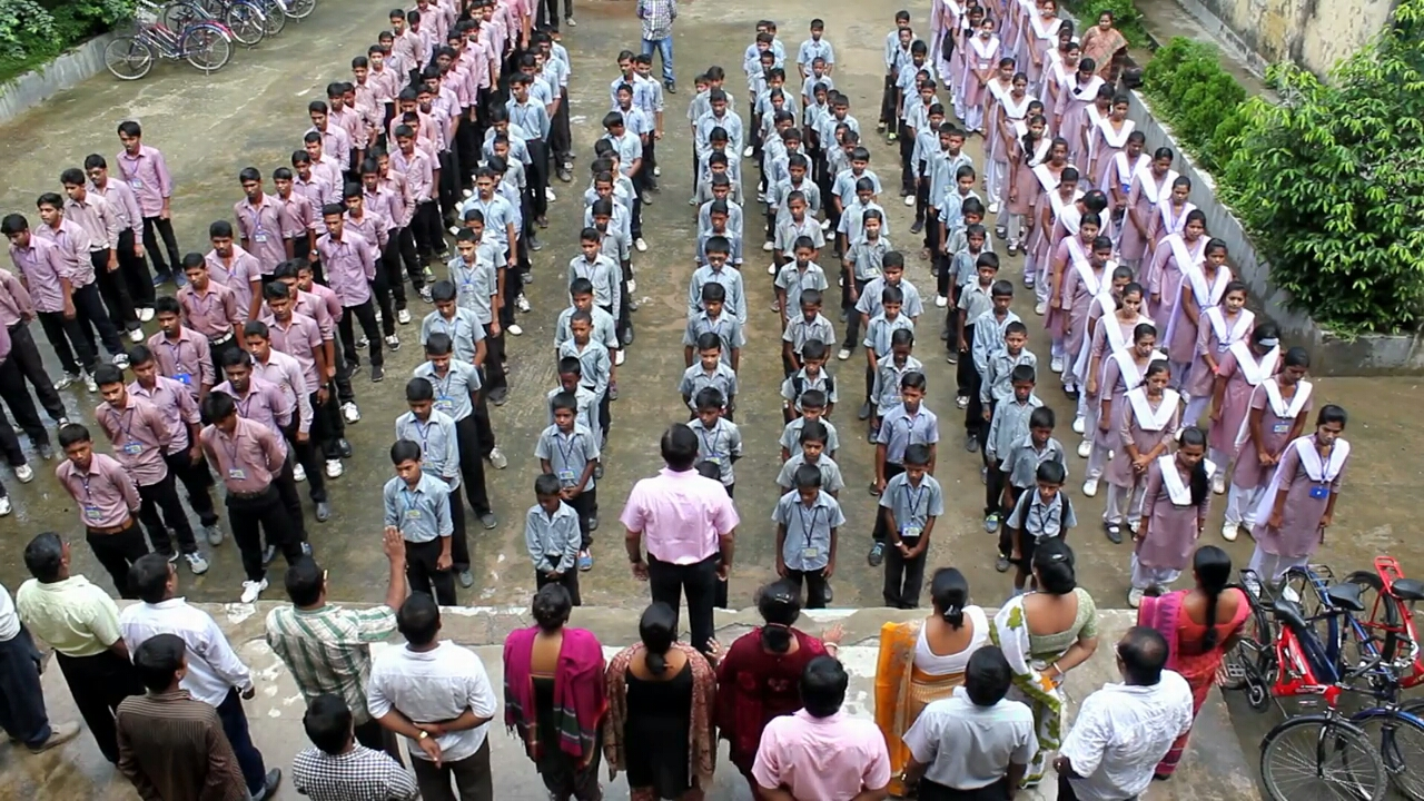 Garefa High School original Bengali: গরিফা উচ্চ বিদ্যালয়